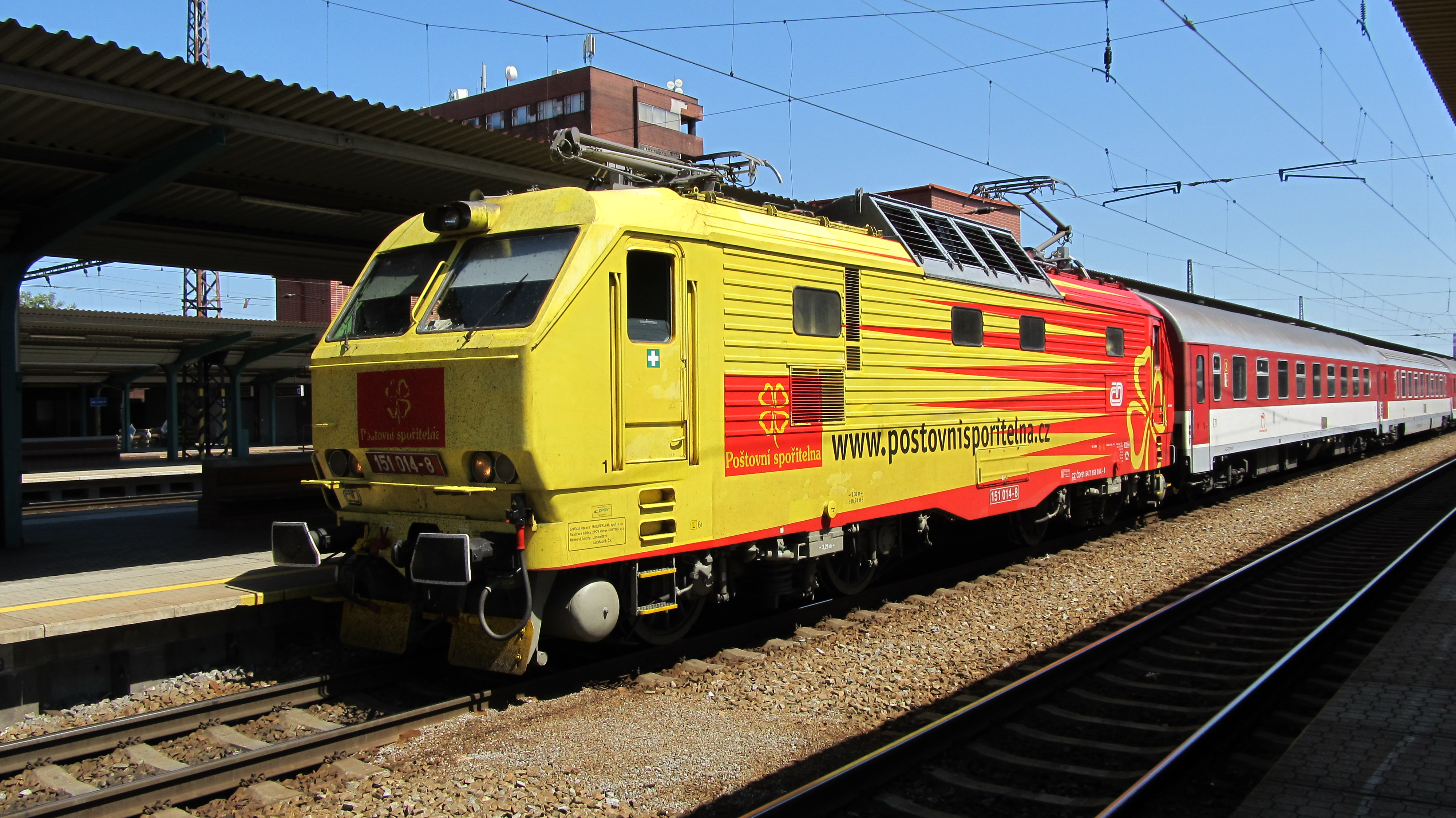 Electric locomotive 151.014-8 of České dráhy at the main train station in Pardubice